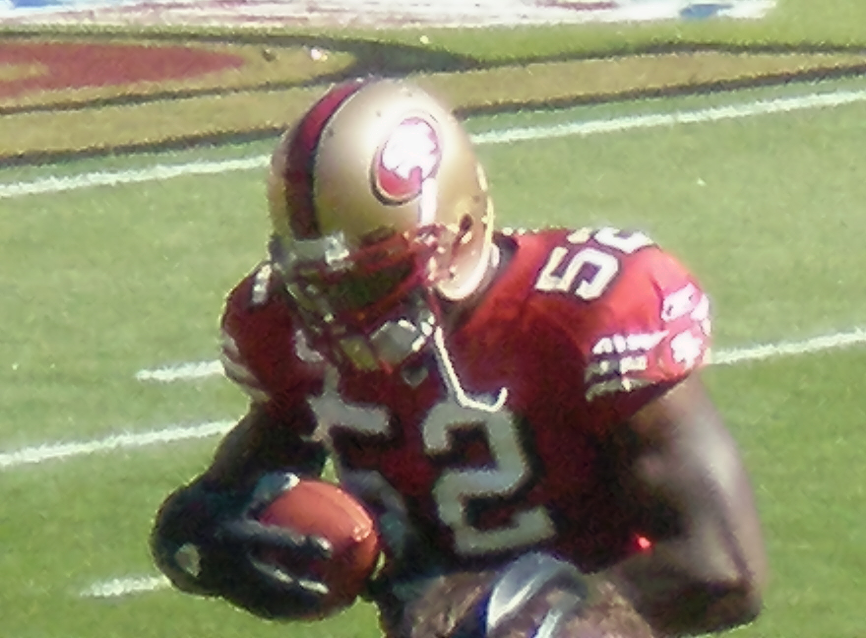 San Francisco 49ers linebacker Patrick Willis warming up on Bill Walsh Field at Candlestick Park prior to a regular season game against the Philadelphia Eagles. The Eagles won 40-26.